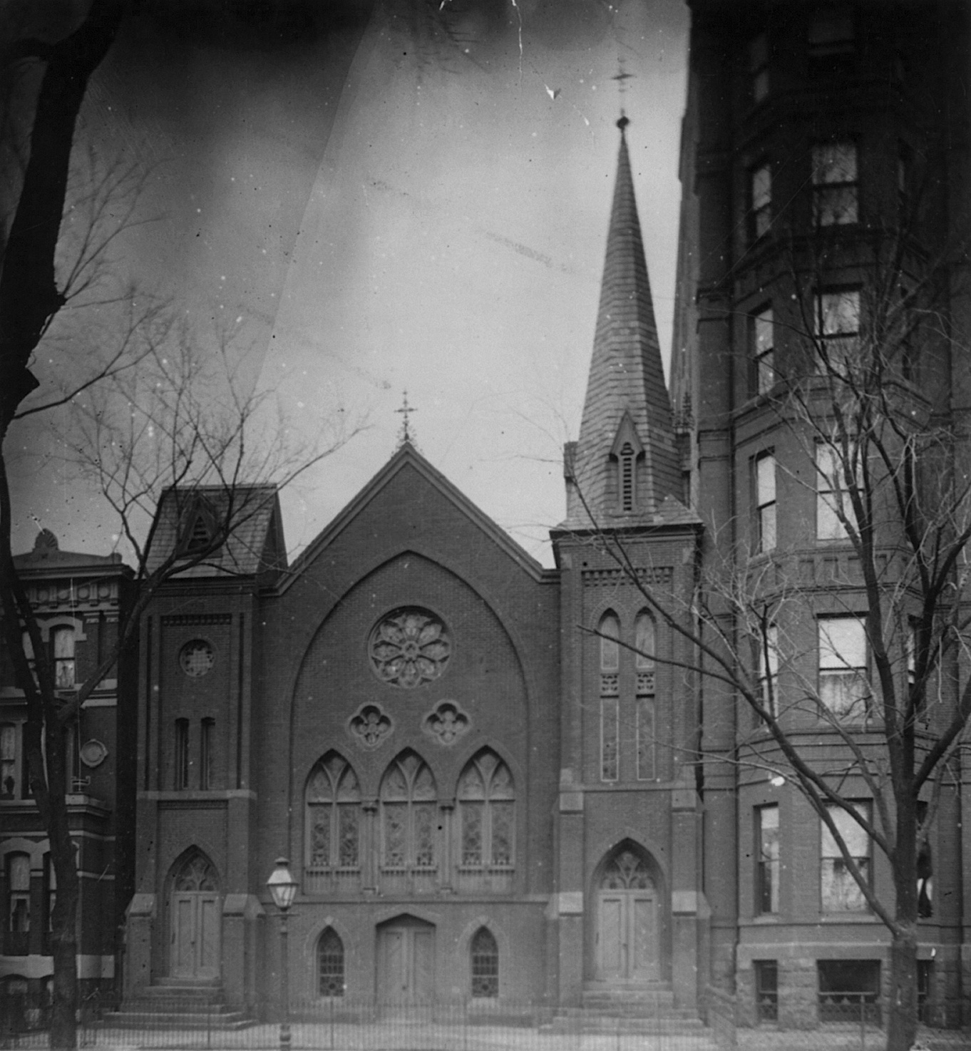 This is an image of the Fifteenth Street Presbyterian Church that was located at 15th and R streets, NW (1705 15th Street, NW), Washington, DC, USA from 1853 to 1918. According to image information on the Library of Congress web site, there are "[n]o known restrictions on publication."